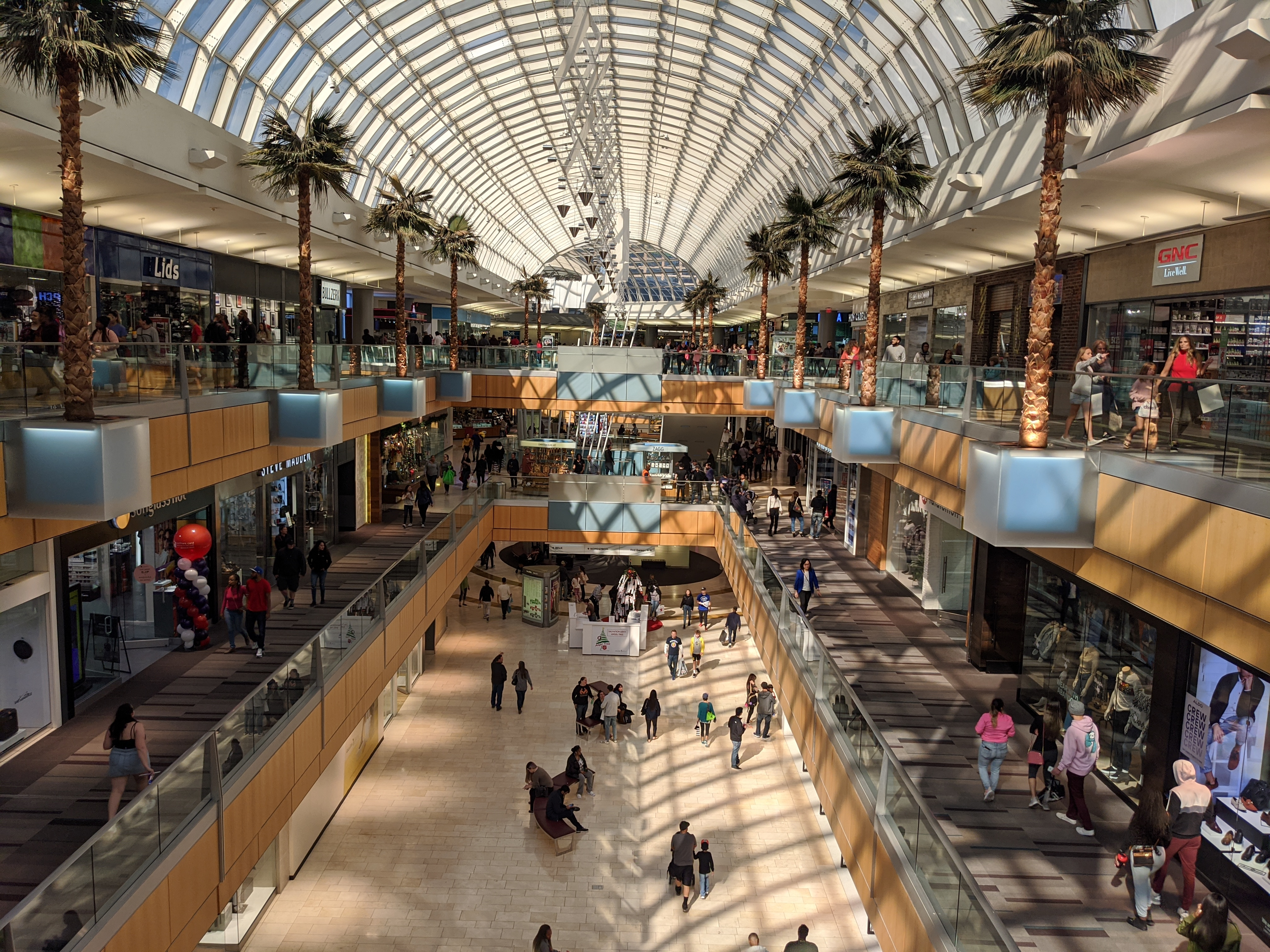 Depicts the west wing